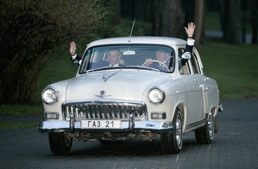 Russian President Vladimir Putin and President George W. Bush take a spin in President Putin's car during a visit Sunday night, May 8, 2005.